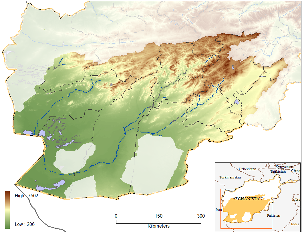 Basin of the Helmand River, within Afghanistan only. Blank areas within the basin are non-drainage areas.